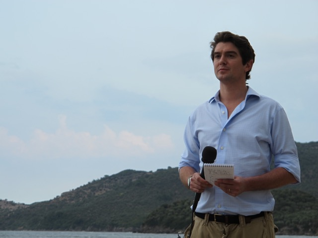 portrait